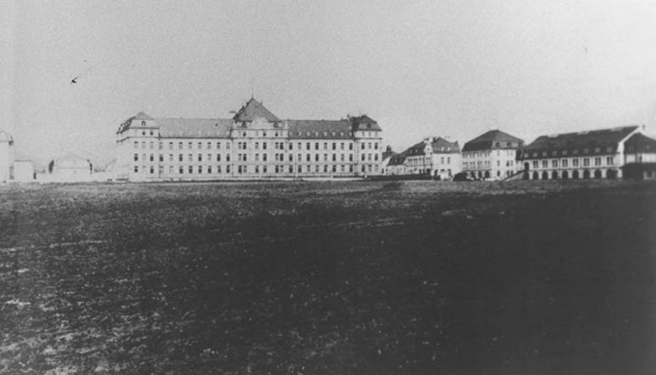 Name before 1945 Oranien-Kaserne (not Gersdorff-Kaserne!), 1945–1993 Camp Lindsey (Lindsey Air Station, US Air Force for Europe), since 1993 Europaviertel, Wiesbaden, Germany